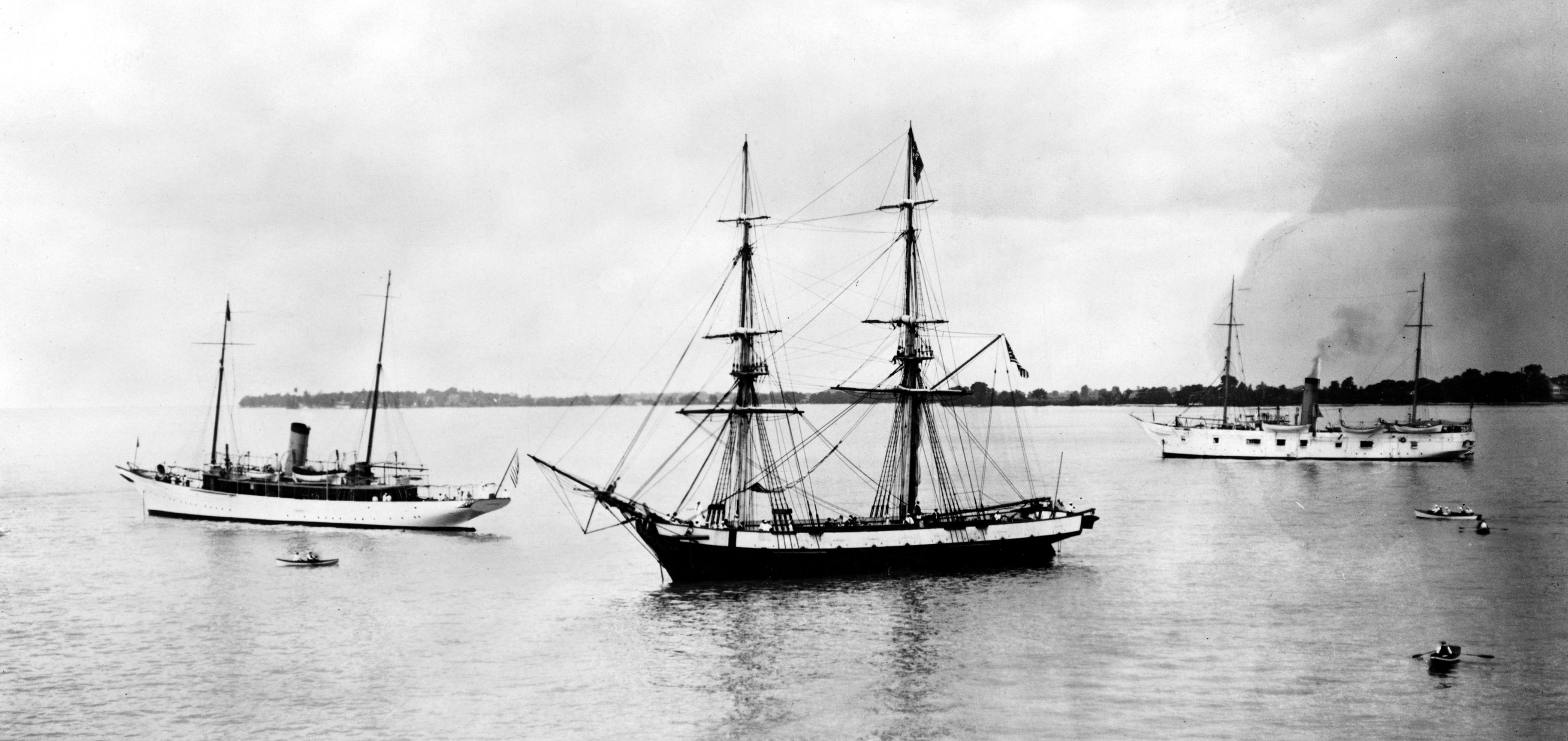 Brig Niagara, 1913, LOC. Oliver Perry's flagship the "Niagara" and two other ships in Put-in-Bay Harbor, Lake Erie during her stay 20-25th July 1913. She was accompanied by a fleet of representatibe naval milita ships of the Great Lakes and United States revenue cutters.[1] Edit of Image:Brig Niagara 1913 LOC 3c27683u.jpg for WP:FPC